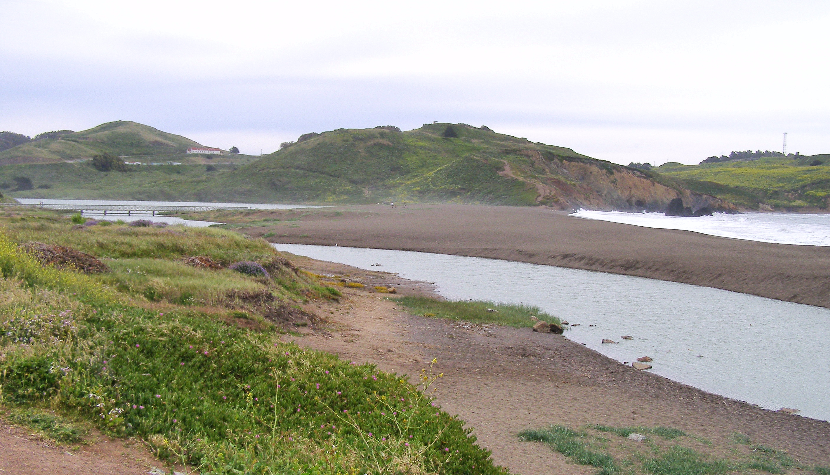 Pedestrian Bridge at Rodeo Lagoon and Rodeo Beach, viewed from near the Fort Cronkhite parking lot. The lagoon was not connected to the ocean at the time.